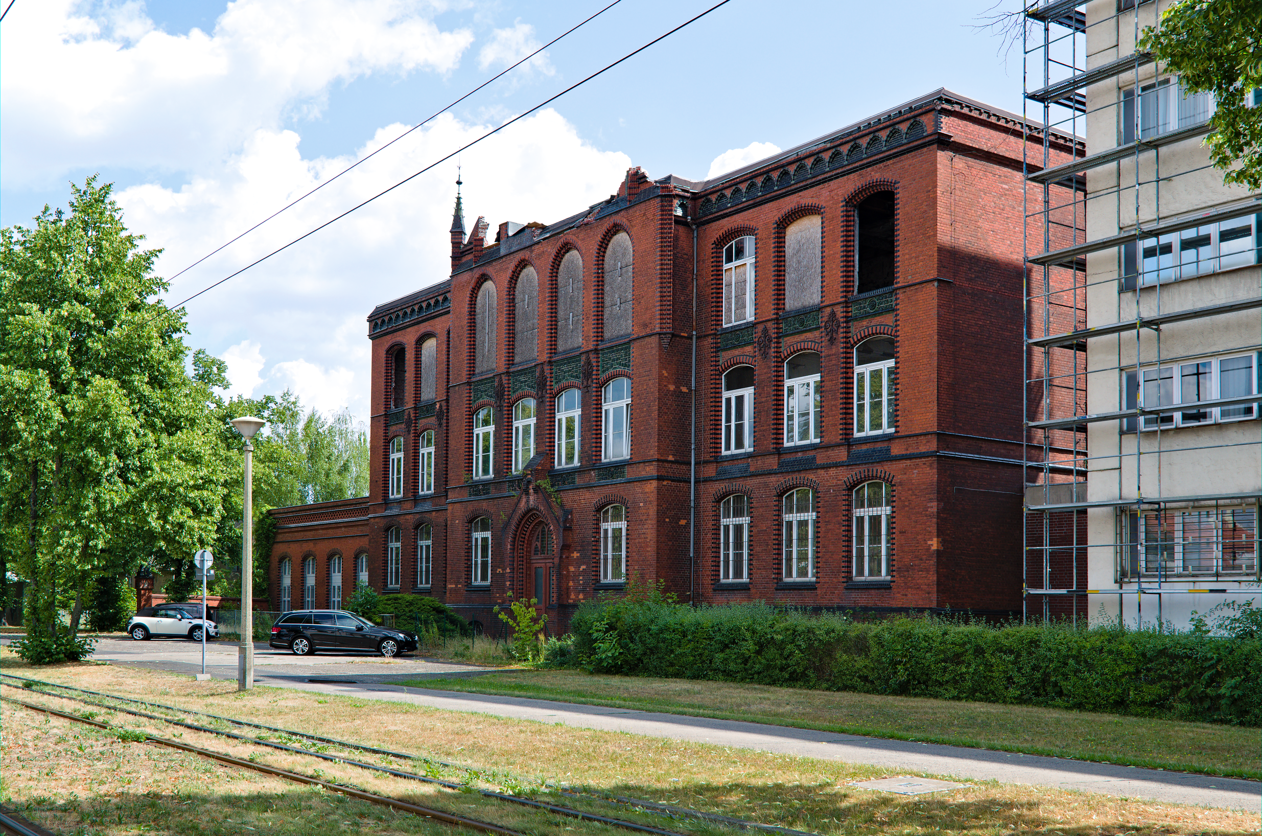 The listed Webschule, formerly a school until 1945, provided space for equipment and offices for the Cottbus police force until a fire damaged it severely in 2010.